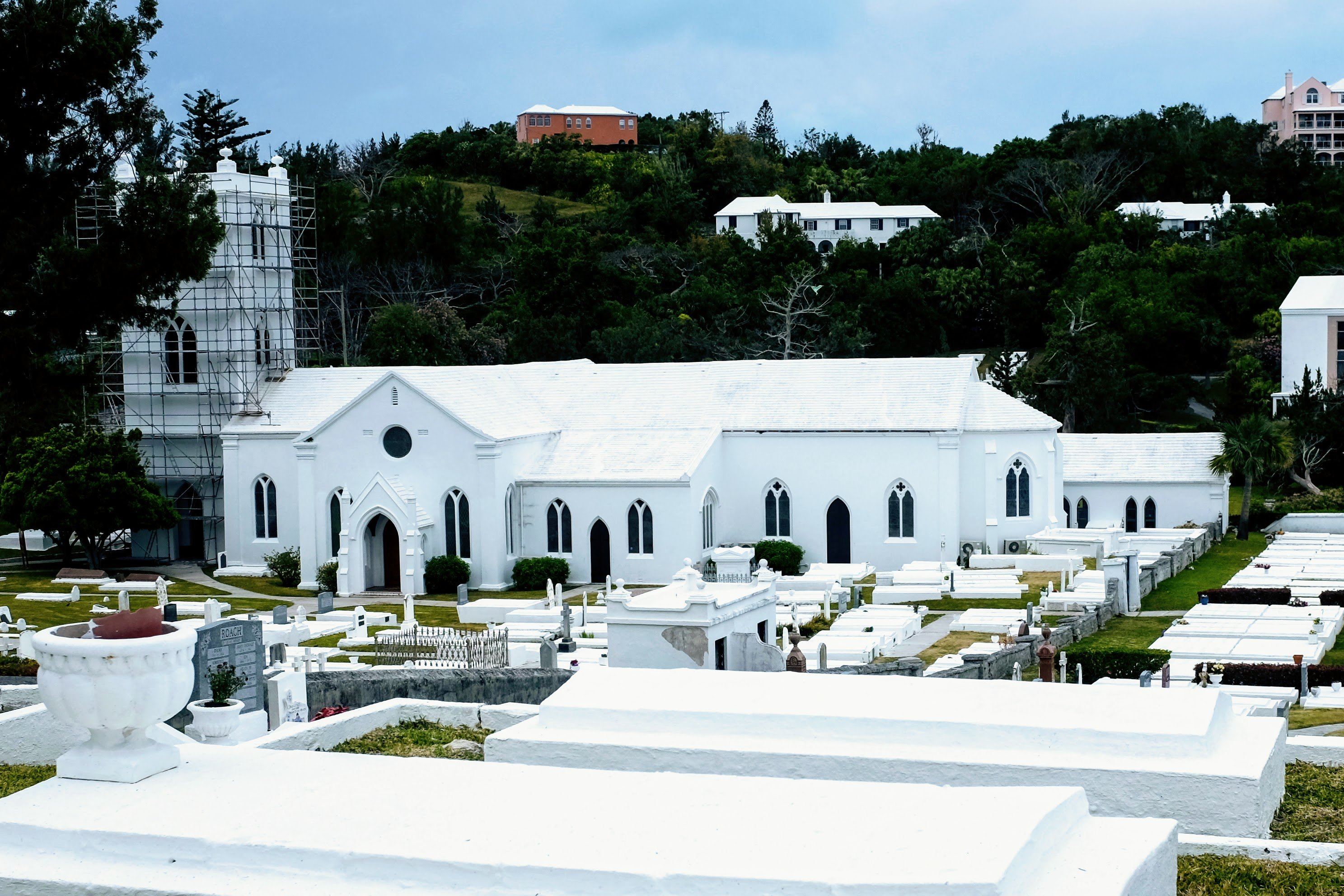 St John's Church and Cemetery, Pembroke Parish, Bermuda founded in 1621